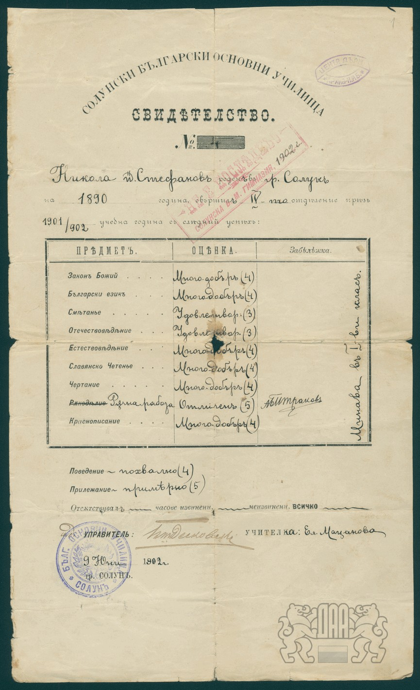 Certificate of Nikola Popstefanov from the Bulgarian Primary School in Thessaloniki, 9 June 1902